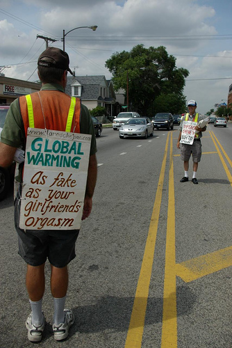 sarcasm in traffic - Chicago